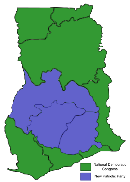 Map, showing the results of the Ghanaian General Election, 2008 by Regions of Ghana. Attribution for the Borderlands of Ghana map: Thfc. Creation & Work